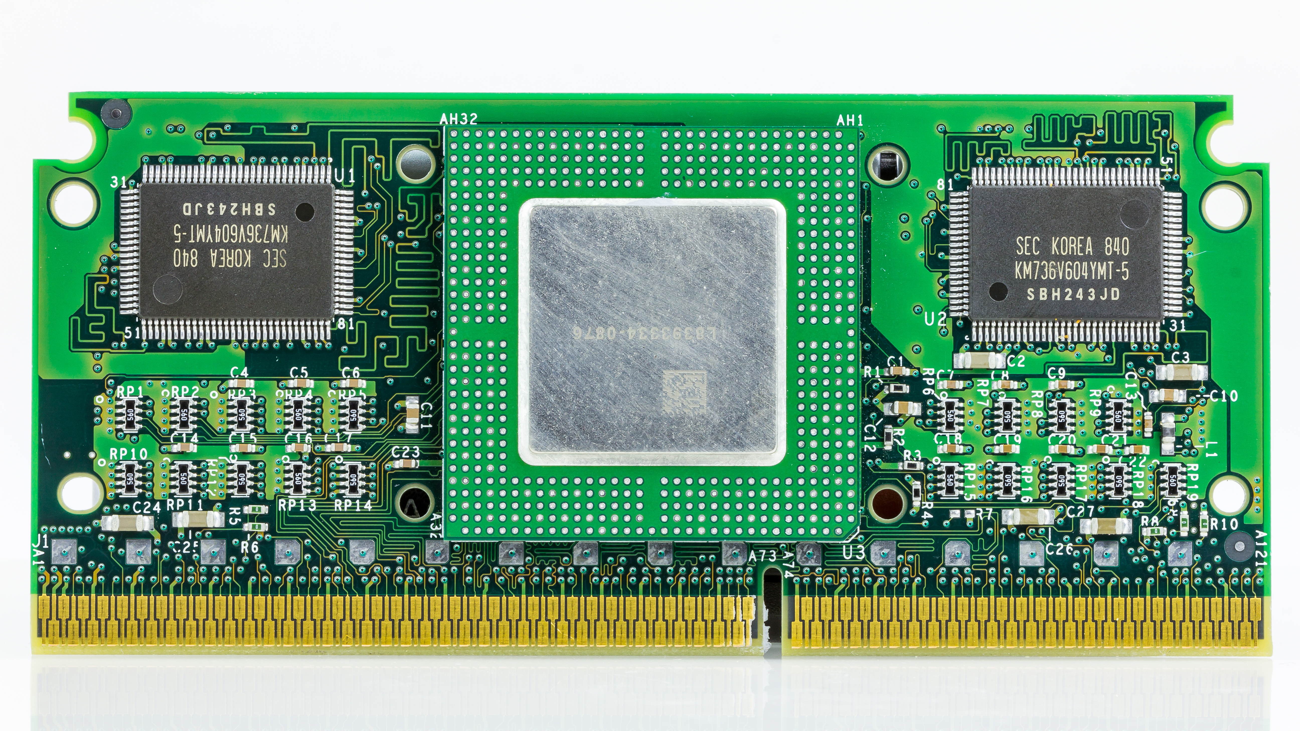 Pentium II 300 Deschutes - SL2W8 - case removed